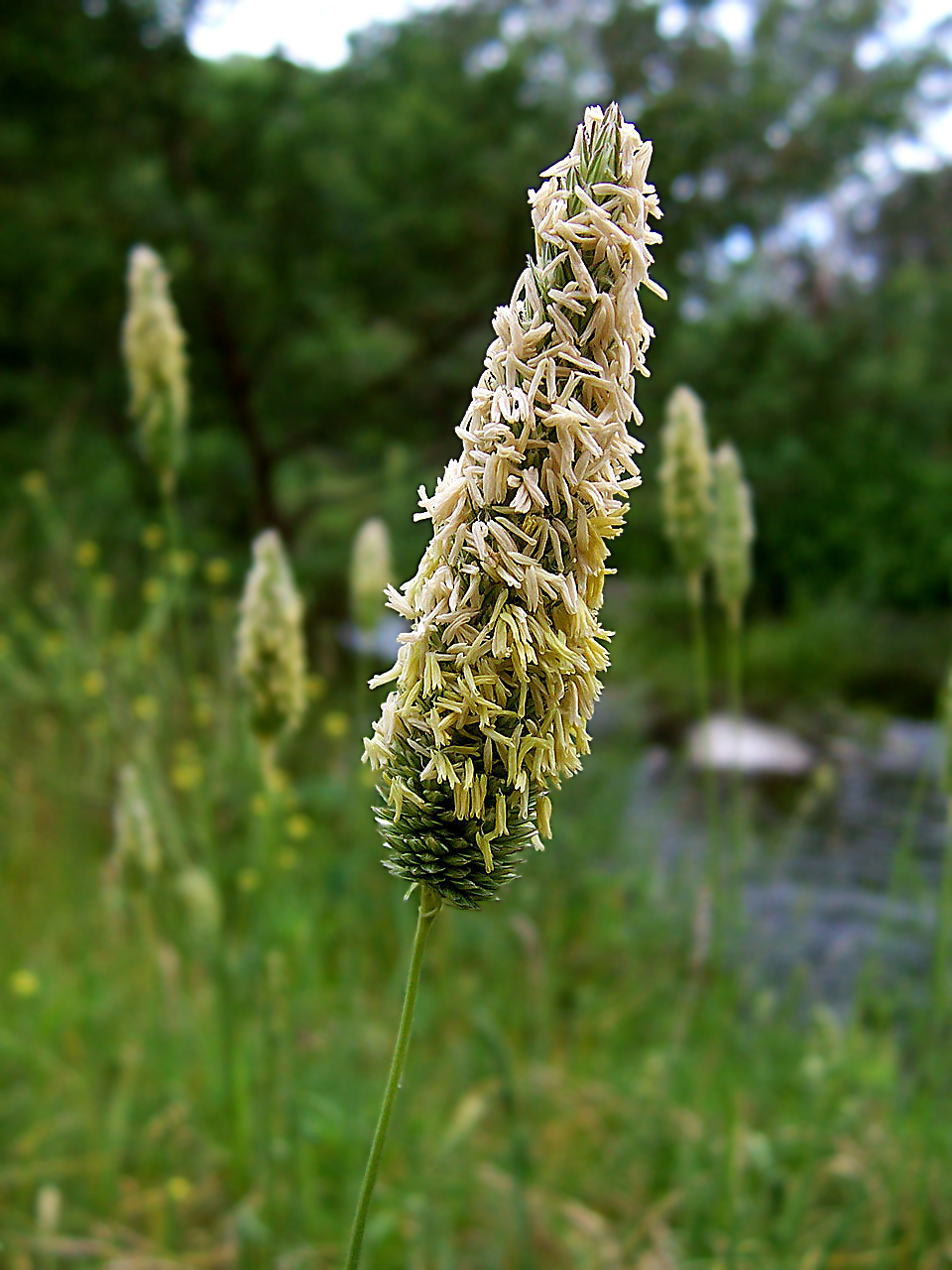 A meadow foxtail grass head. Thanks to User:MPF for identifying it, and to User:brian0918 for this edit Taken by User:Fir0002